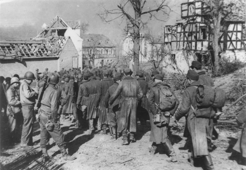 Title: Rheinland, Deutsche Kriegsgefangene Extra information: Rheinland.- Kriegsgefangene deutsche Soldaten unter Bewachung amerikanischer Soldaten beim Marsch durch eine Ortschaft mit zerstörten Fachwerkhäusern Factual corrections and alternative descriptions are encouraged separately from the original description. Additionally errors can be reported at this page to inform the Bundesarchiv. Original historic description: German prisoners march to pontoon bridge crossing German prisoners-of-war, captured by the First U.S. Army in Germany, march down the road toward American-built pontoon bridges crossing the Wied River, which runs into the Rhine. U.S. Signal Corps Photo ETO-HQ-45-22765 Serviced by London OWI (files) certified as passed by shaff censor [März 1945]